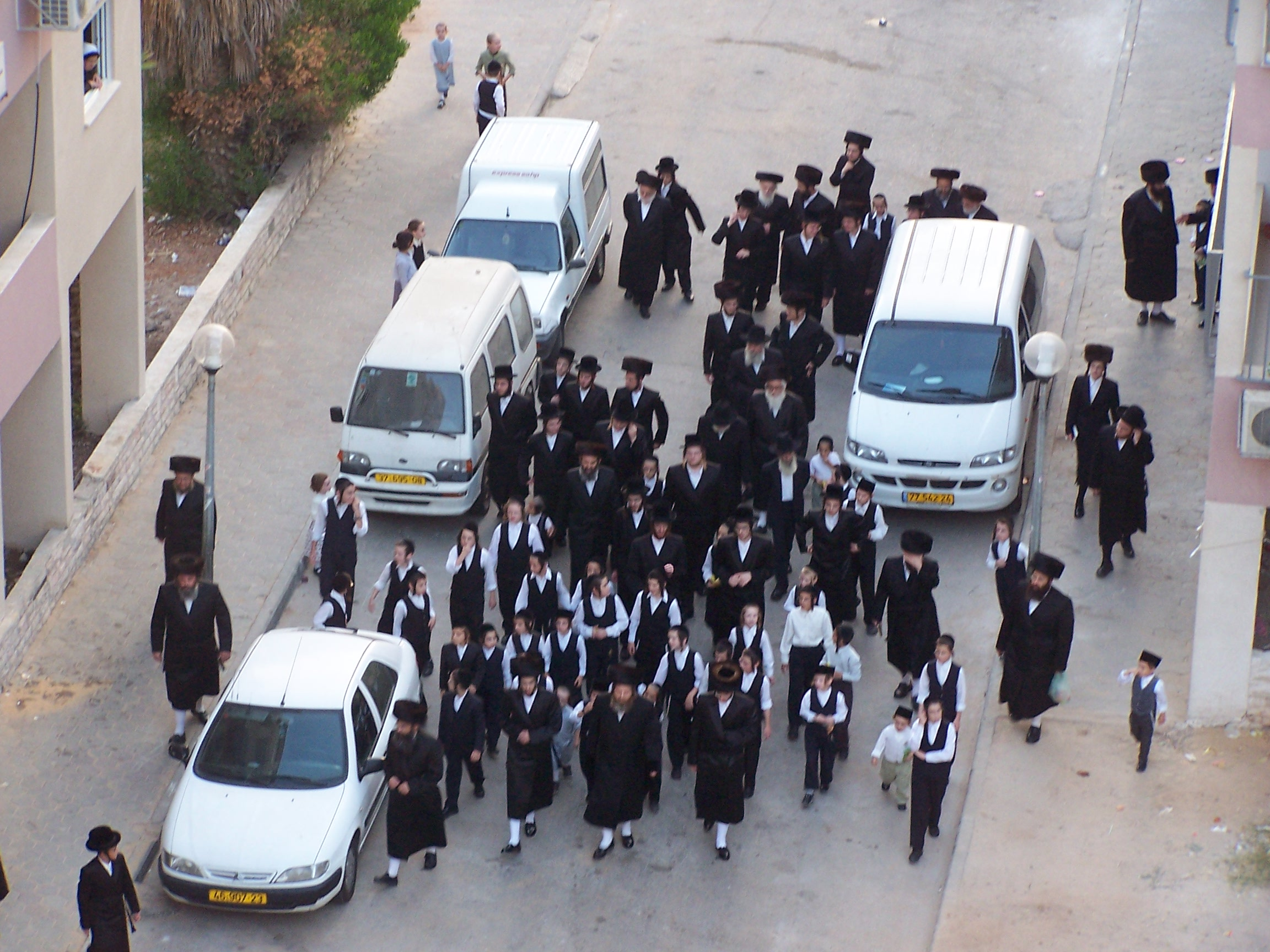 Israel, Rehovot - a group of Haredim going to synagogue to welcome shabbat on friday evening.